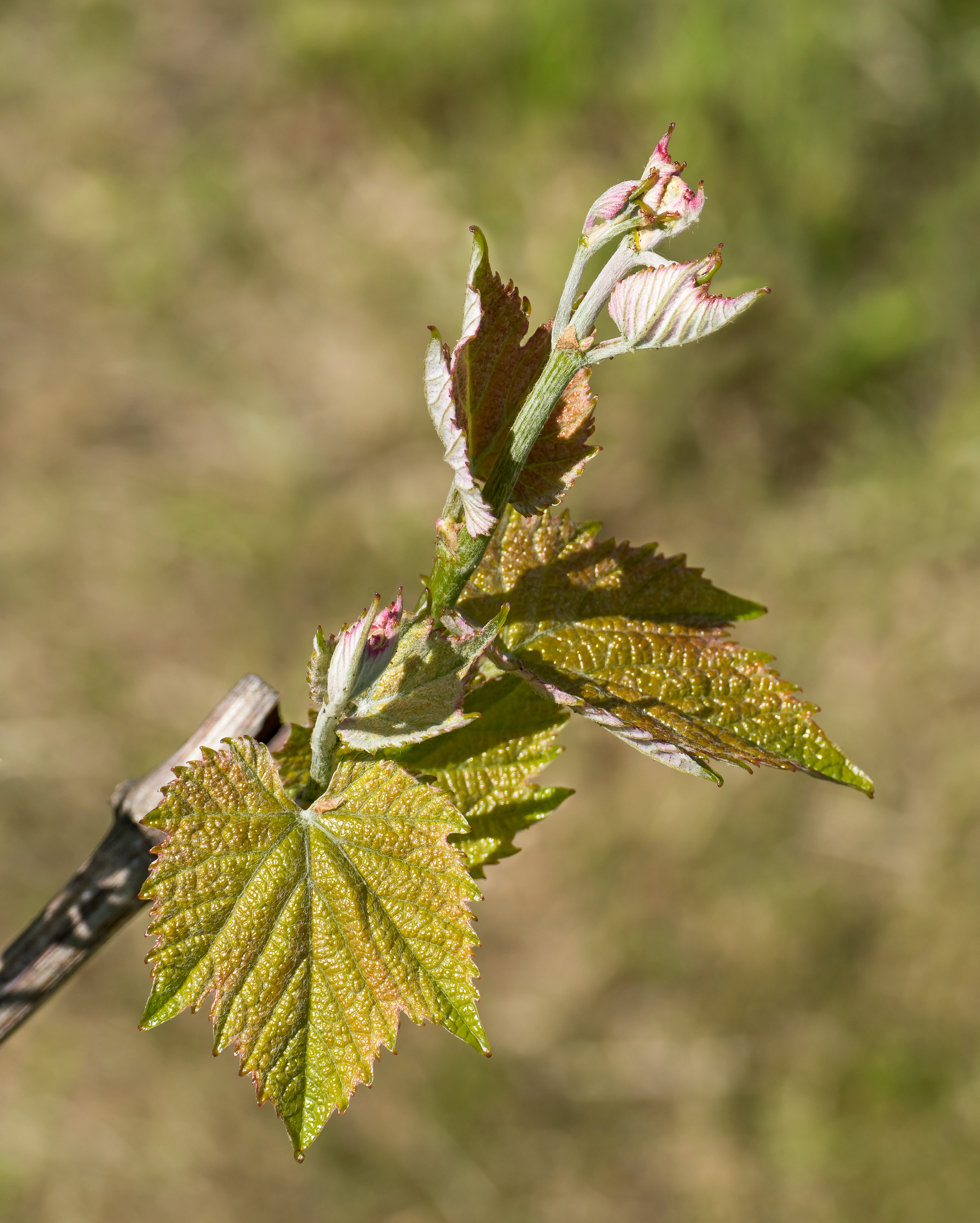 Shots of young leaves, tendrils and flowers on grapevines (Vitis vinifera) in Chateaux Luna vineyard, Lysekil, Sweden.